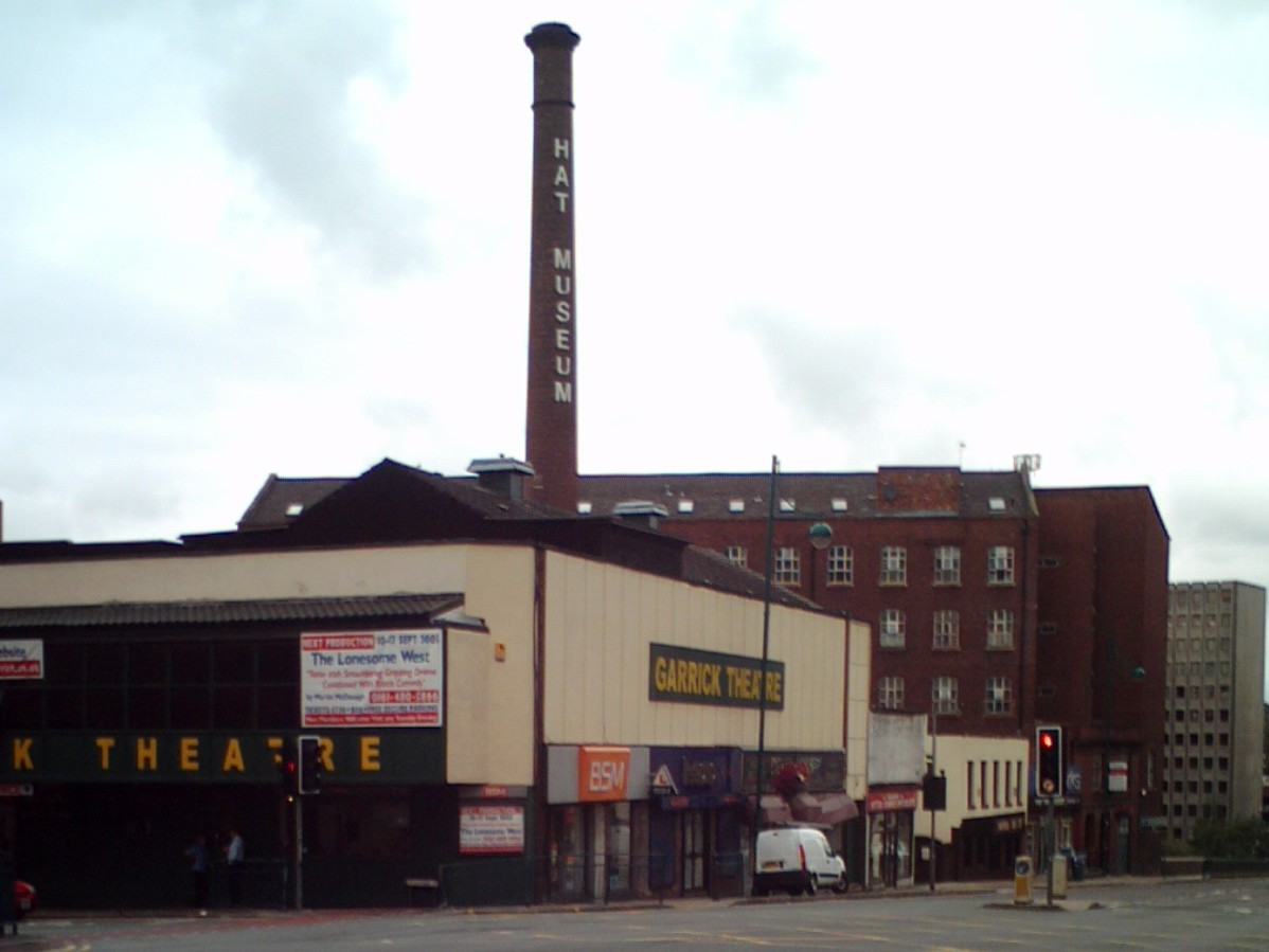 Photograph of the Hat Works museum in Stockport, Greater Manchester.